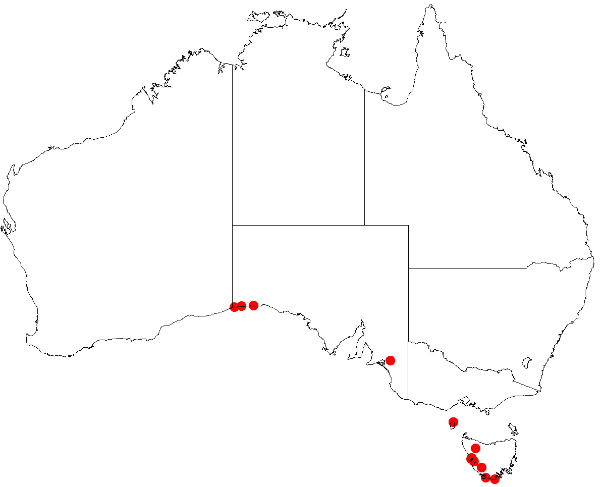 Billardiera nesophila occurrence data from Australasian Virtual Herbarium downloaded 5 July 2018